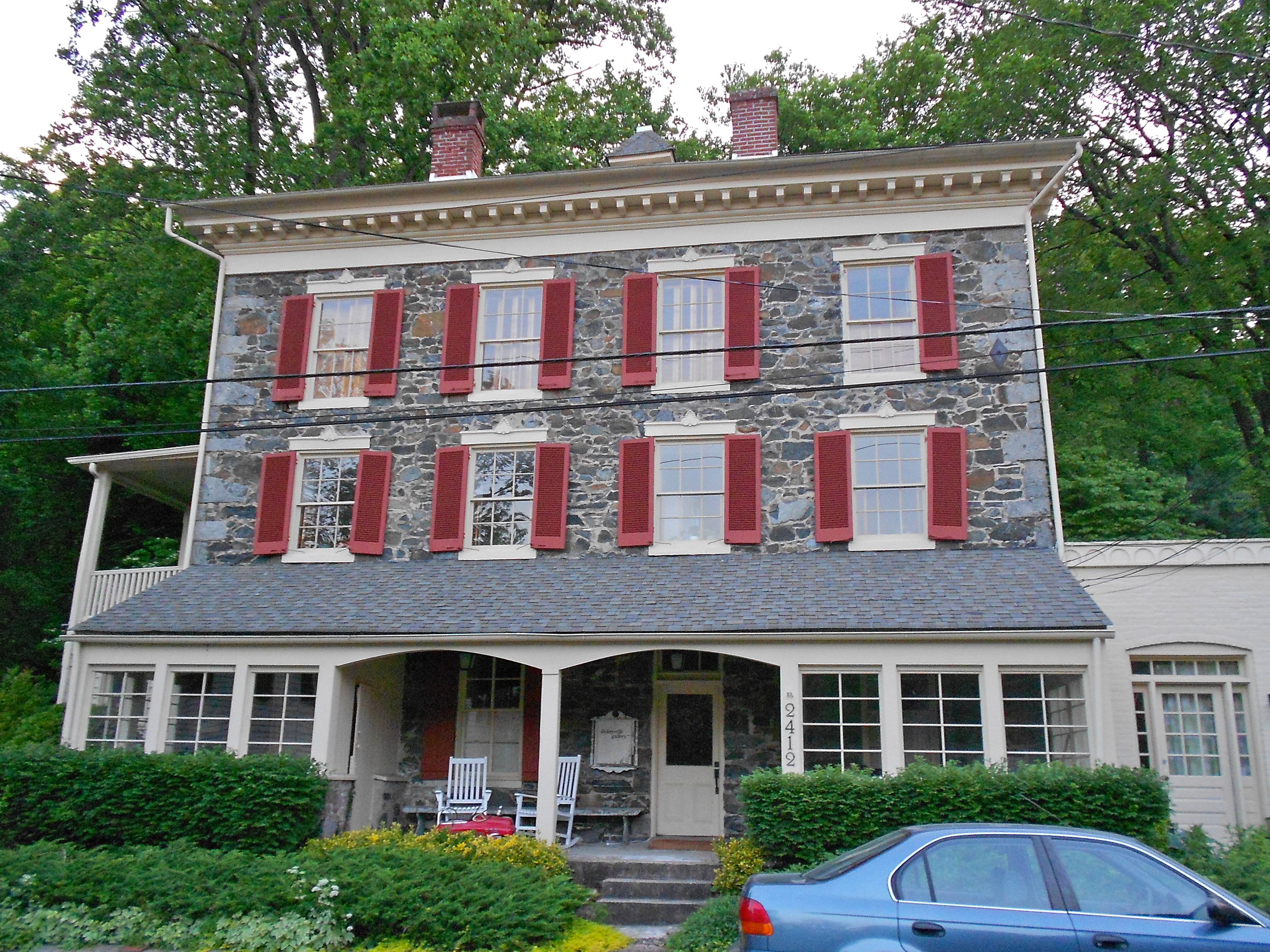 House in the Dickeyville Historic District on the NRHP since July 12, 1972 On Pickwick and Weathedsville Roads in Gwynn's Falls area of Baltimore, Maryland.